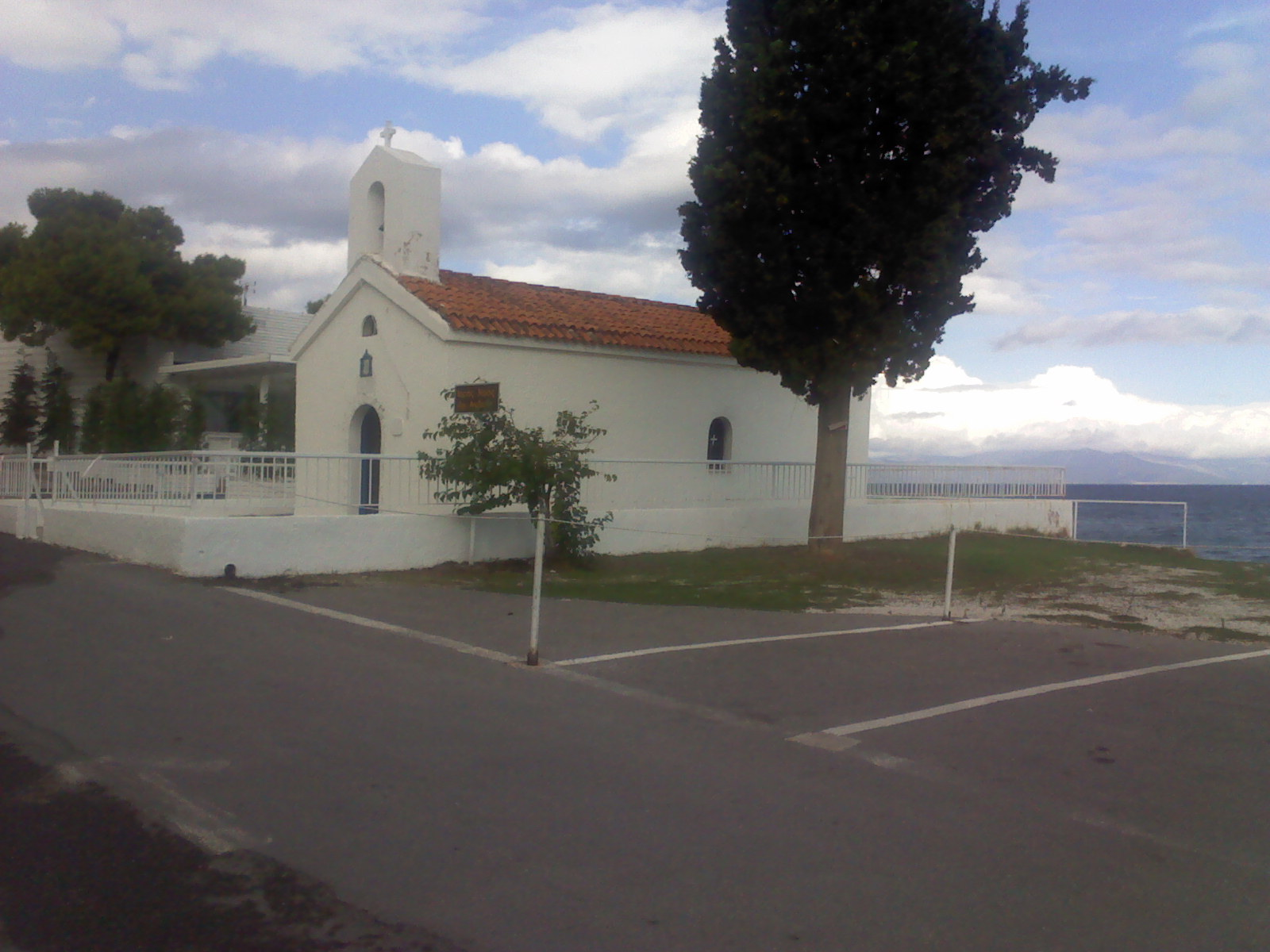 Churche Agios Andreas Nea Makri